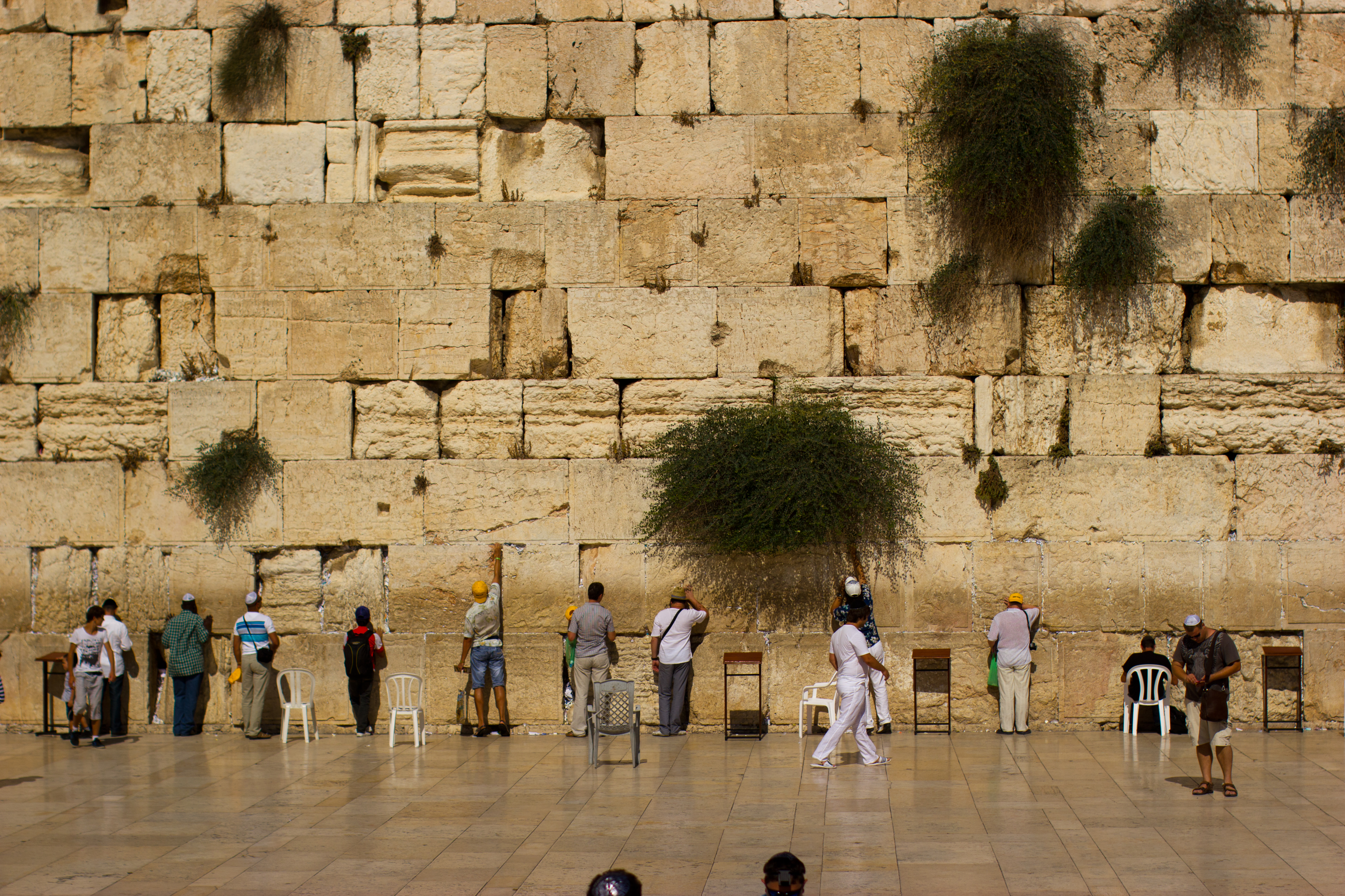 Wailing Wall Jerusalem